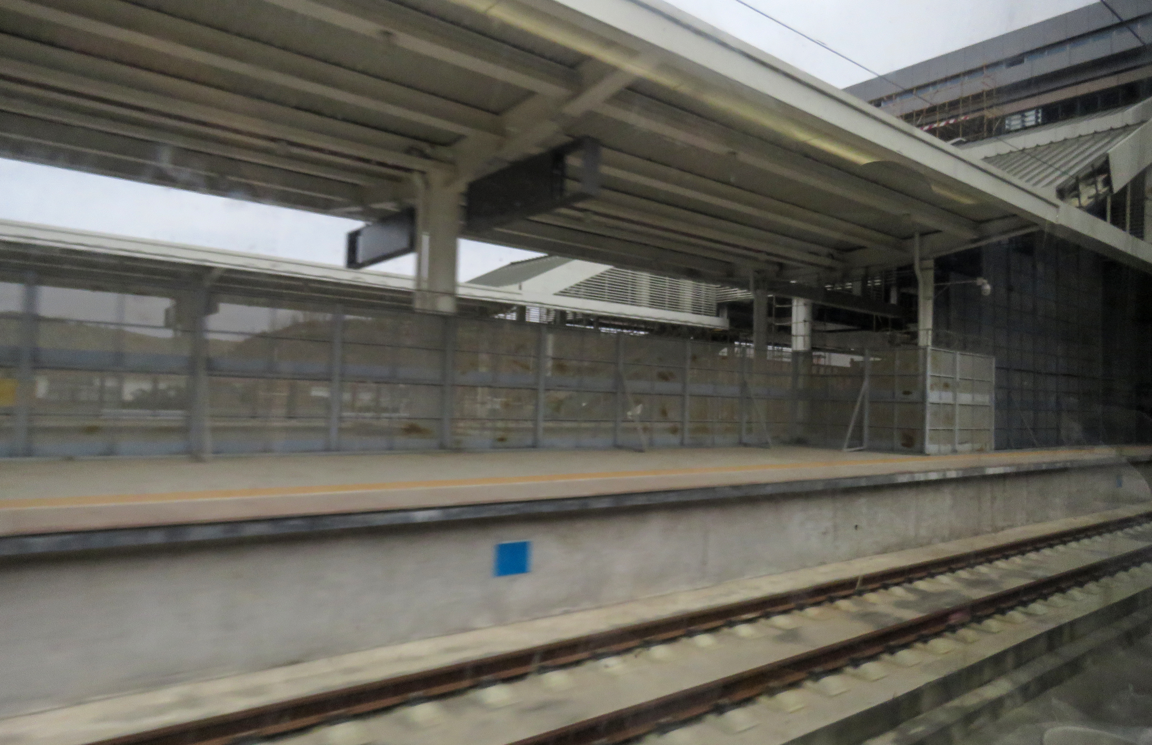 Still under construction. By the way, how is Hangzhounan going?